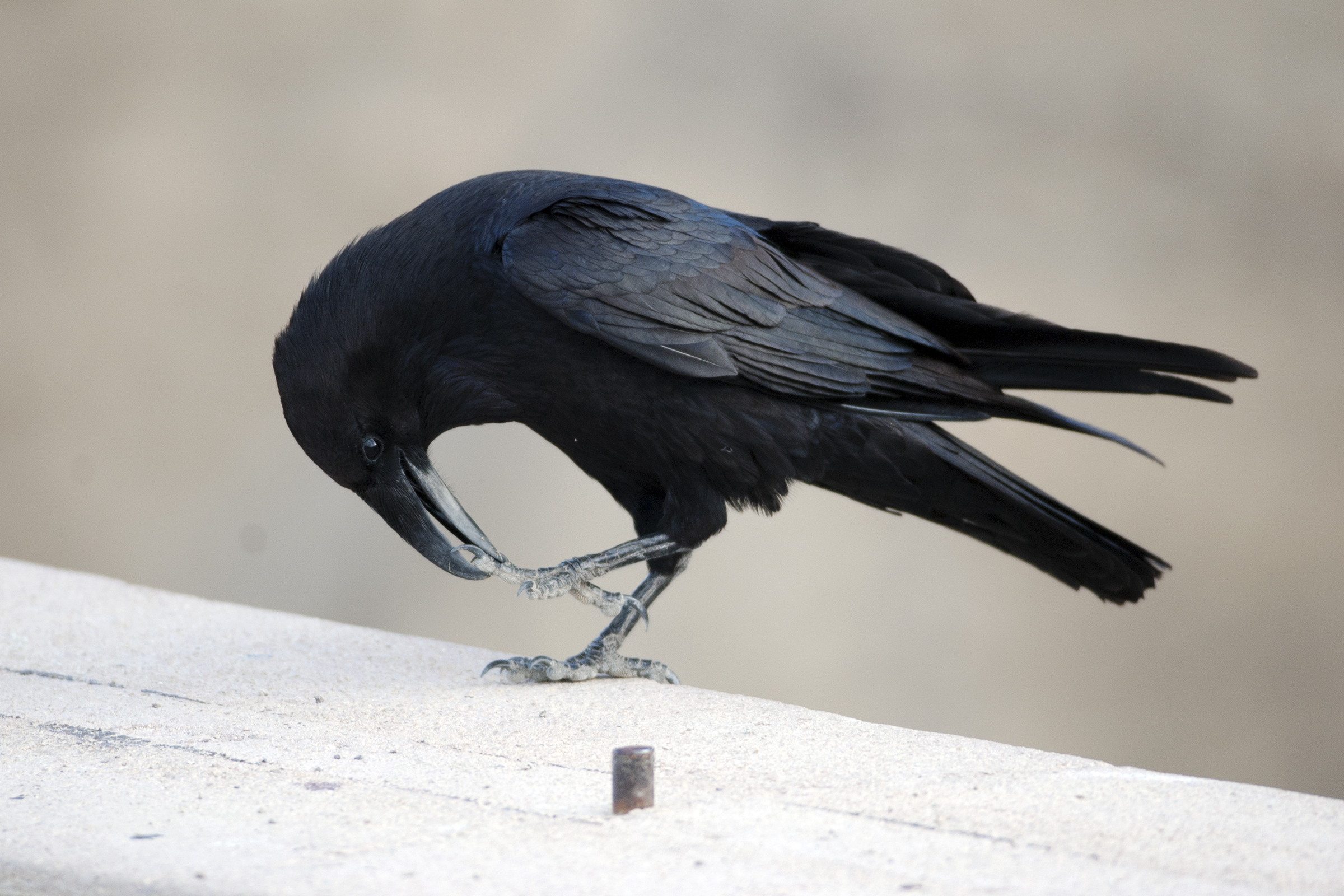 A raven in Death Valley National Park, California